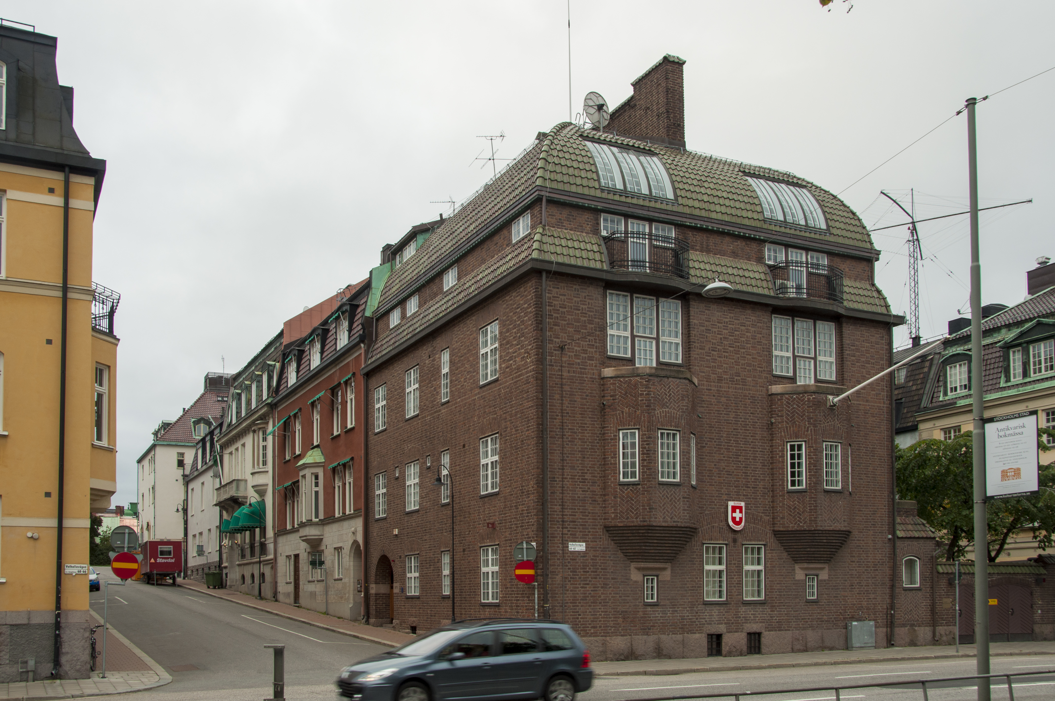 Embassy of Switzerland in Sweden